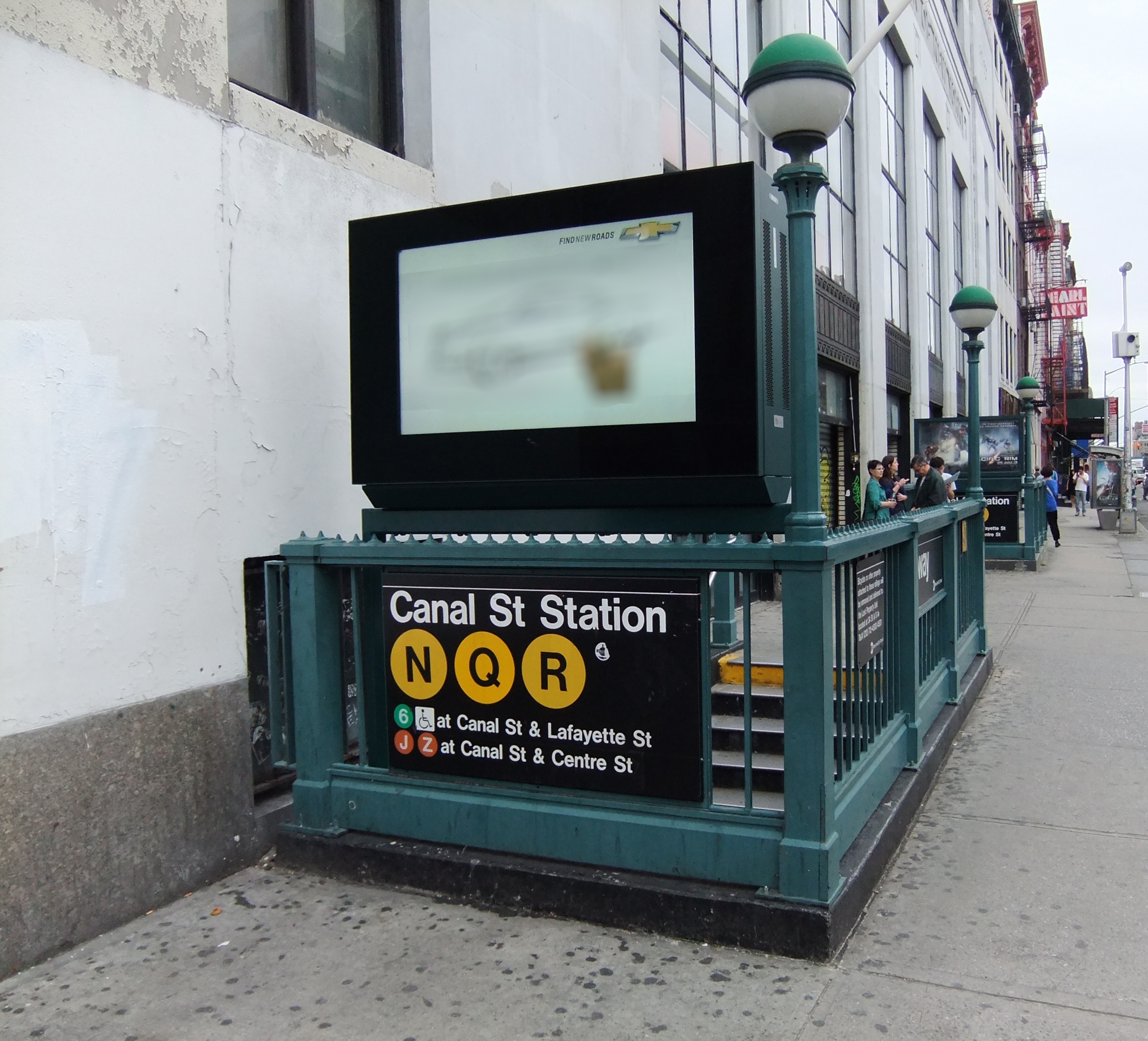 Entrance to the Canal Street station in Manhattan.